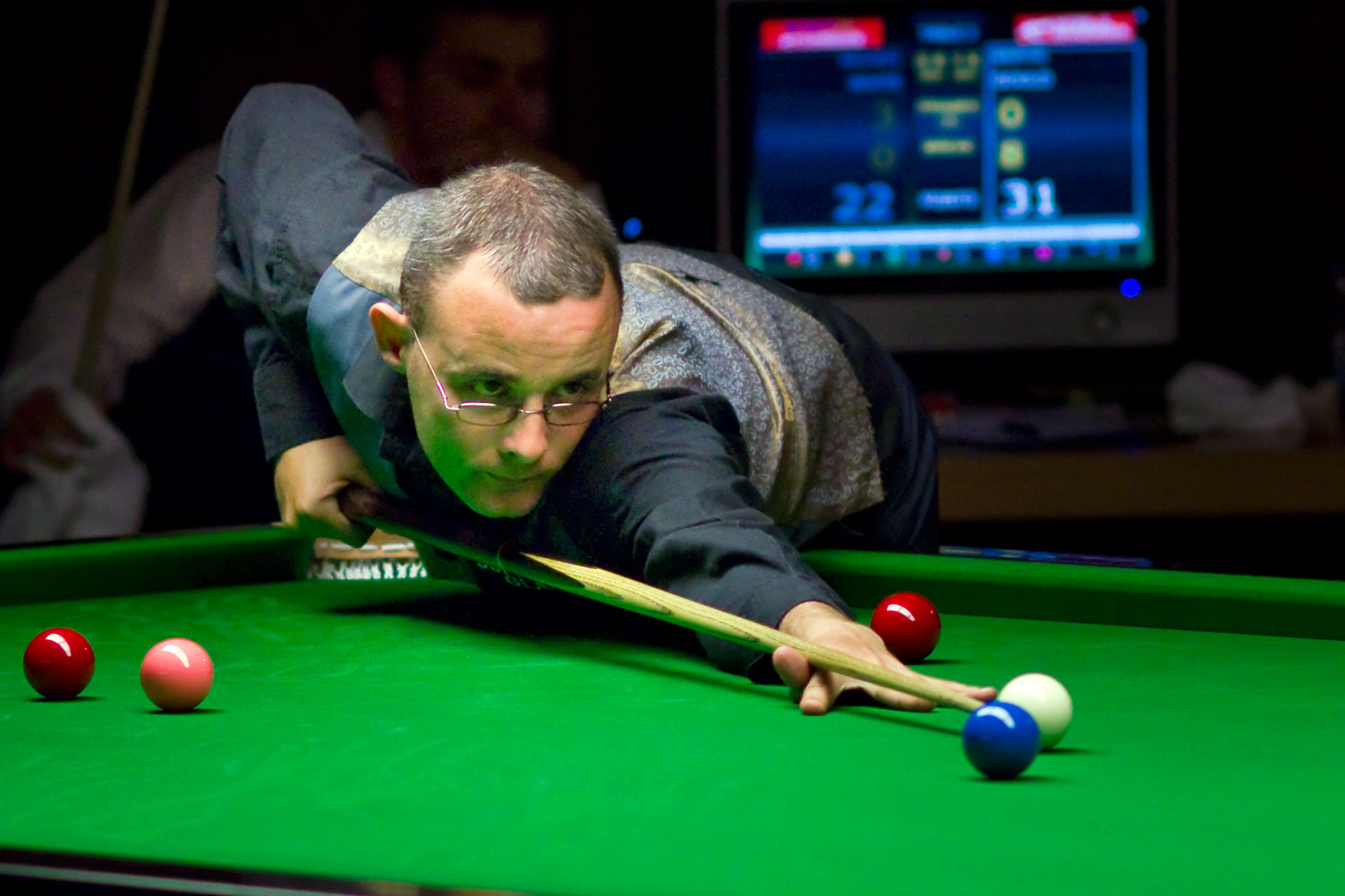 Martion Gould at the Paul Hunter Classic 2011